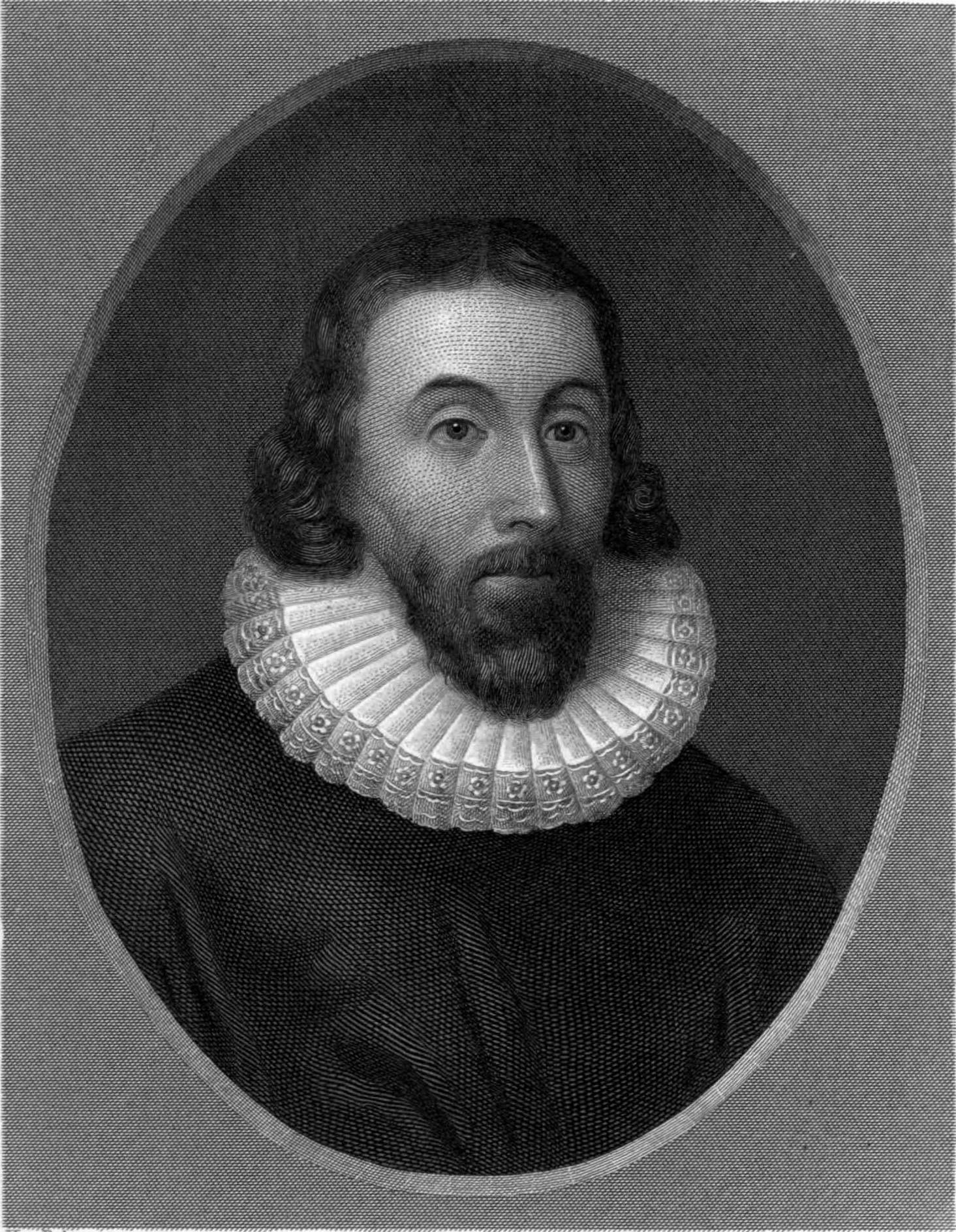 Portrait of an early governor of Massachusetts Bay Colony, John Winthrop.